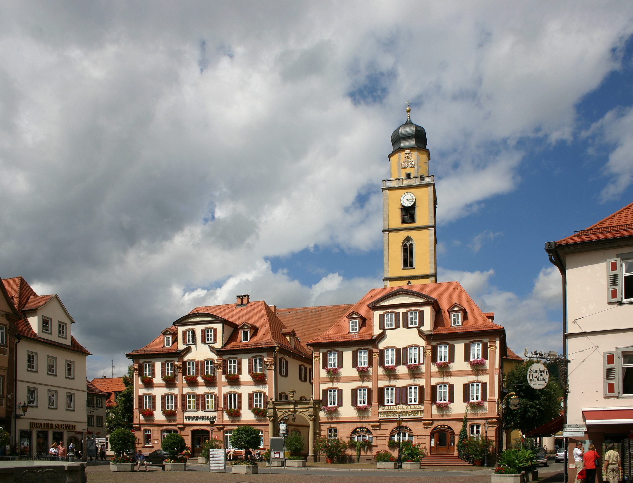 Market square with twin houses and St. John's church in Bad Mergentheim.